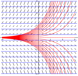 Isoclines (blue) of y'=y